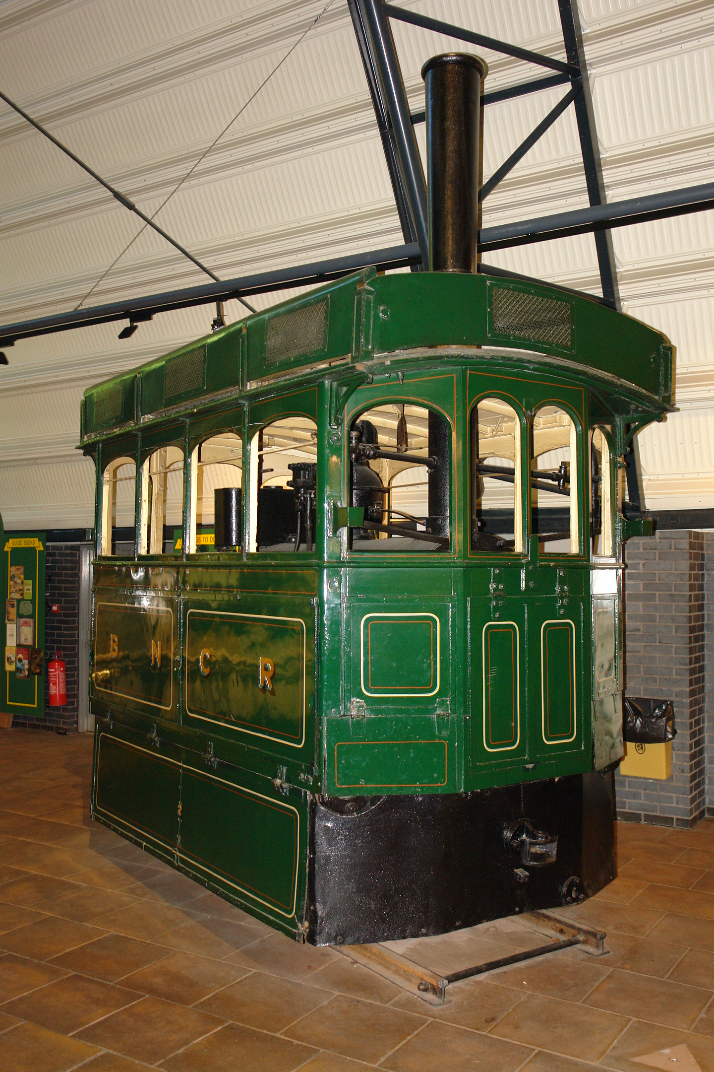 Ulster Transport Museum, Cultra, Belfast and Northern Counties Railway (Portstewart Tramway Company) Locomotive No 2